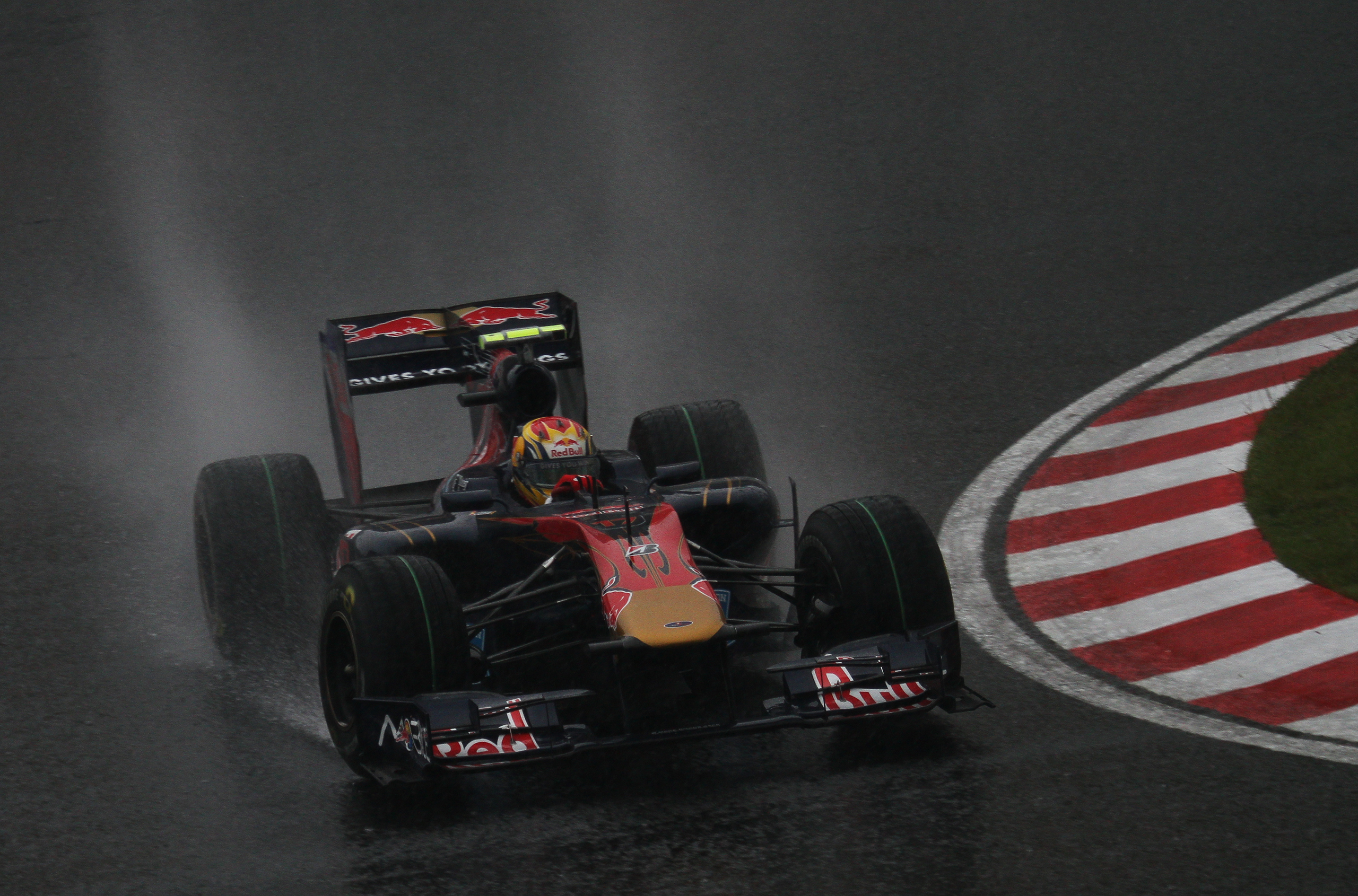 Formula One 2010 Rd.16 Japanese GP: Jaime Alguersuari (Toro Rosso) during Saturday 3rd Free Practice session.